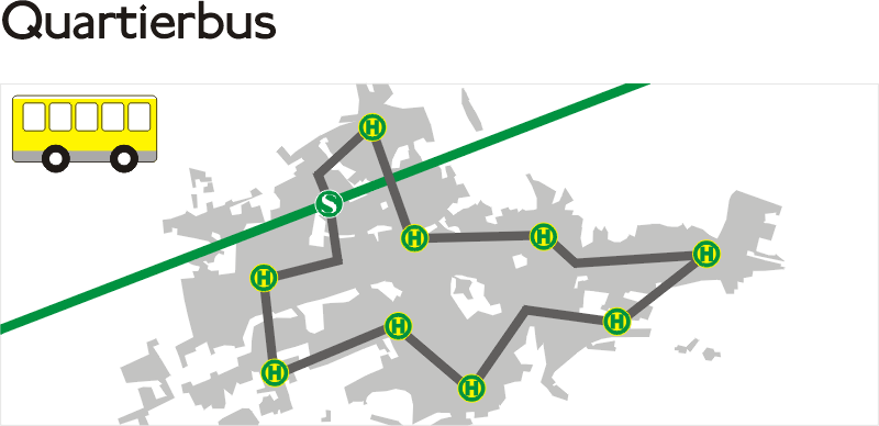 Map showing princip of a Ring Bus line.